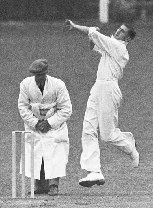 Australian fast bowler Ernie McCormick (1906 - 1991) in action against Worcester at Worcester, 2nd May 1938